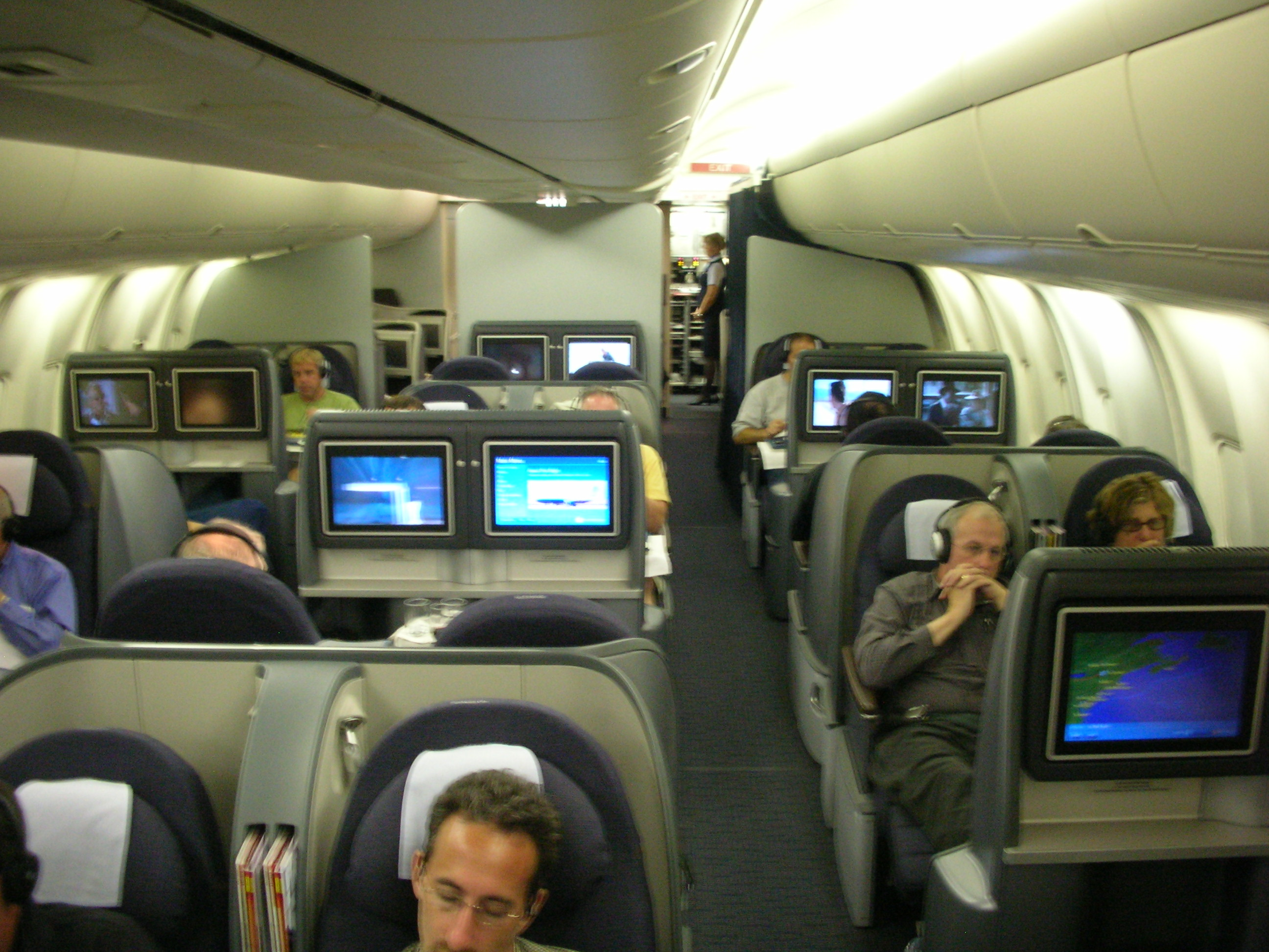 Business Class, United Airlines